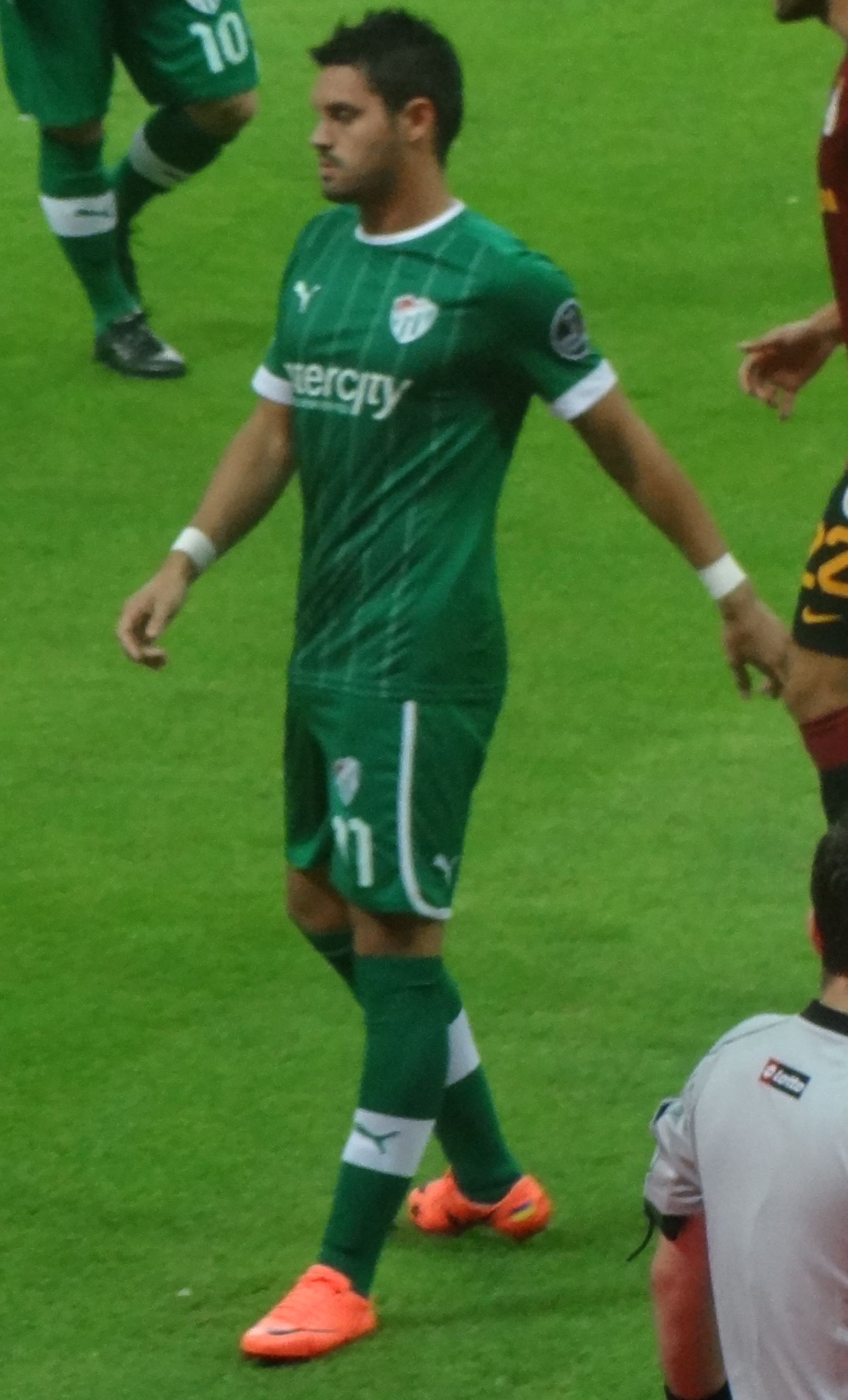 Sebastian Pinto